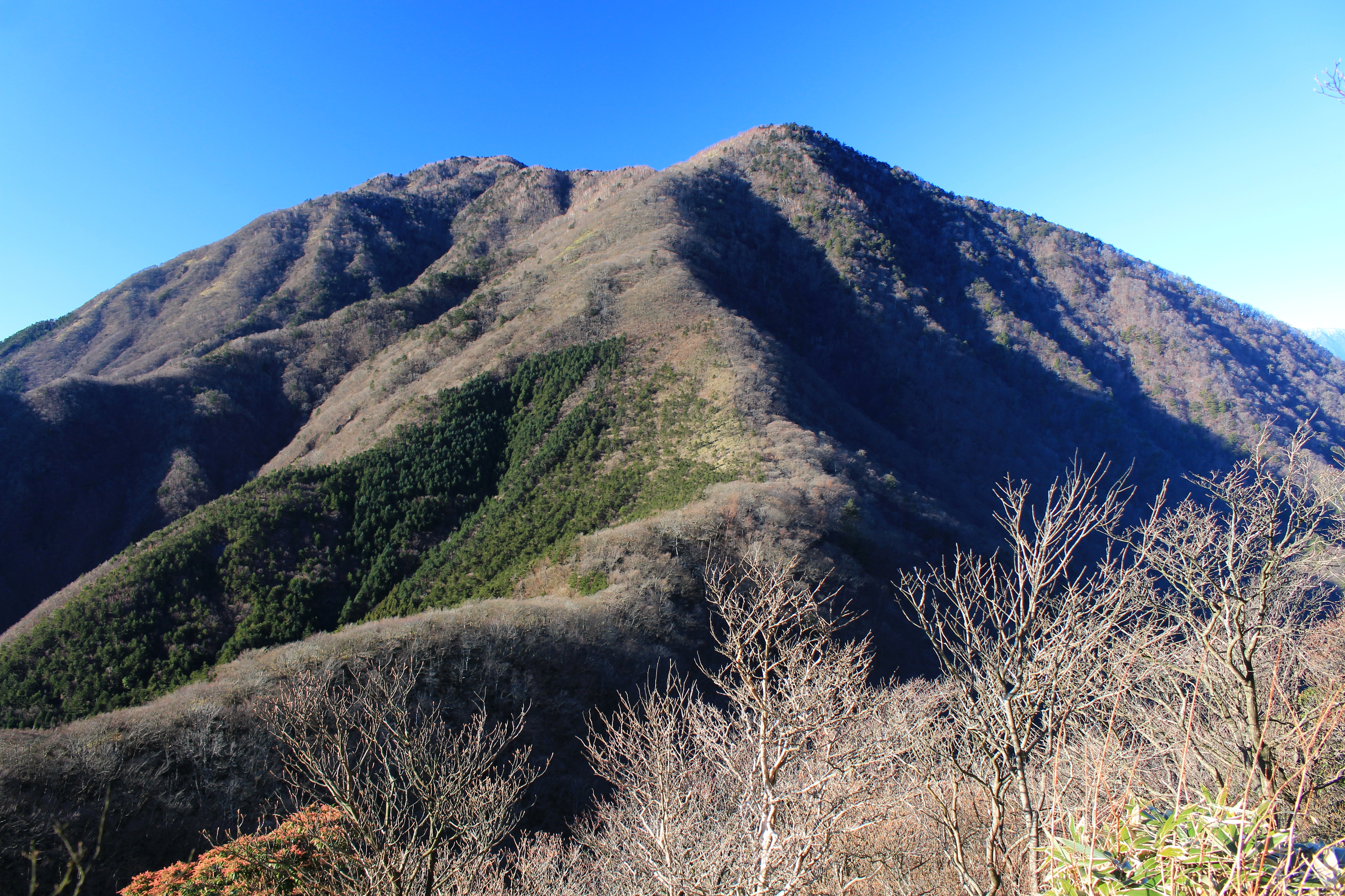 Mount Ama seen from Mount Ryu in Tenshi Mountains, Japan.